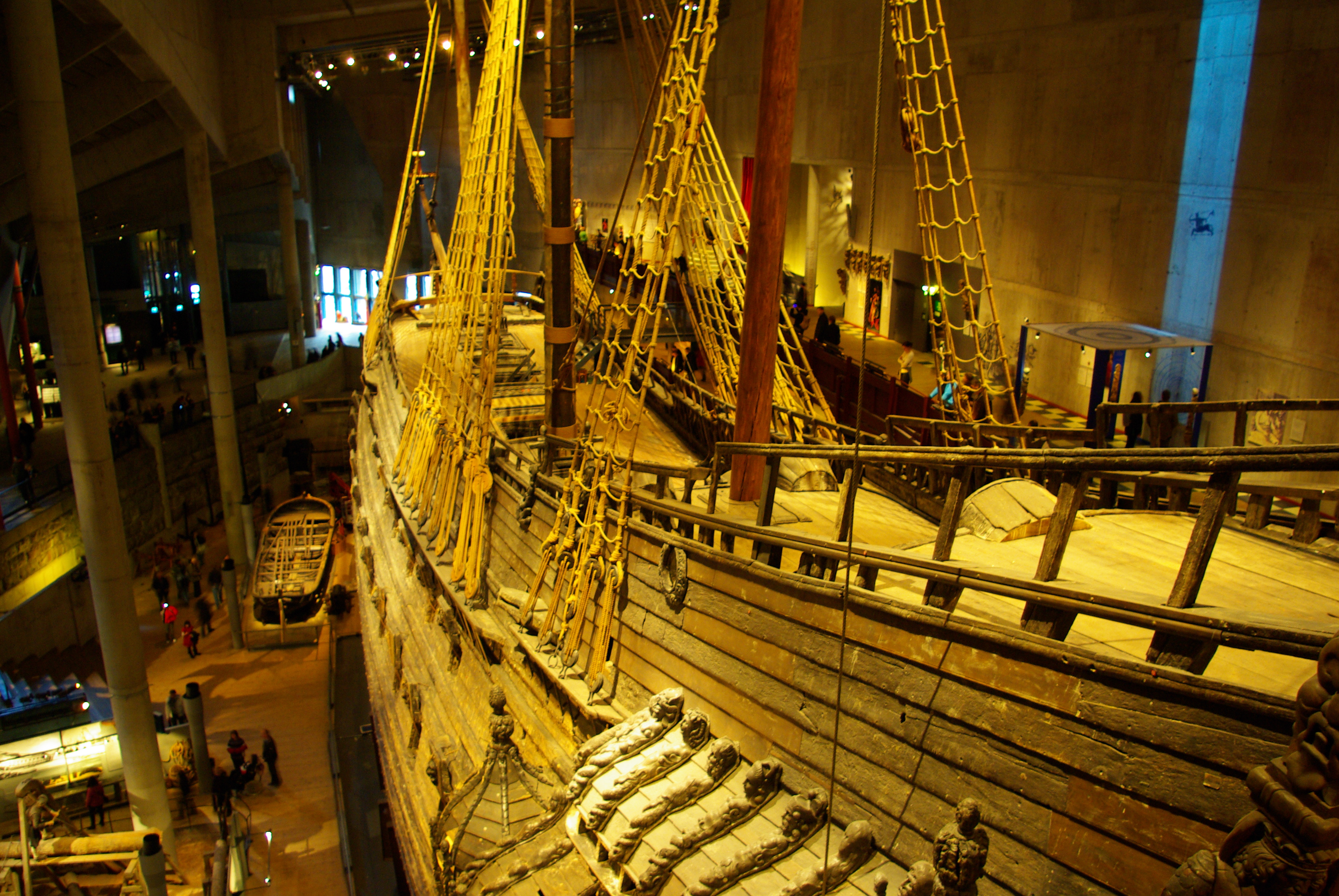 The Vasa Ship at the Vasa Museum in Stockholm.